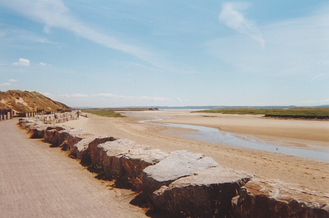 The Millennium Coastal Path at Pembrey This is part of National Cycle Network route 4 where it runs along the edge of the dunes at Pembrey at the western end of the Llanelli Millennium Coastal Park. The 22km long park was mostly reclaimed from industrial wasteland and otherwise useless waste products - 800,000 tons of pulverised fuel ash from the site of the Carmarthen Bay power station and sewage sludge and silt from Burry Port harbour - were used in the reclamation process.